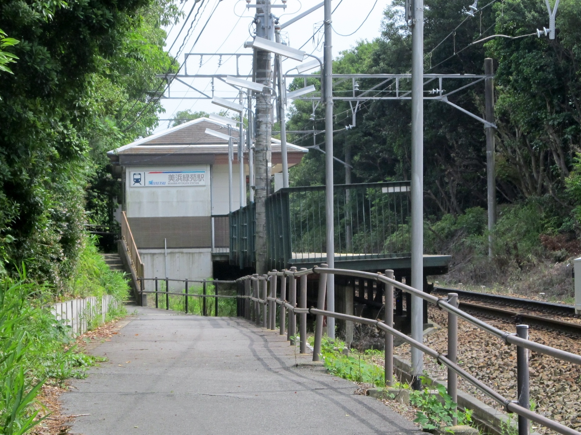 Nagoya Railroad Chita Line Mihama Ryokuen Station Northern Access route